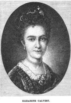 Elizabeth Calvert (1760 - 1814), daughter of Benedict Swingate Calvert (1722 - 1788) and Elizabeth Calvert (1731 - 1788)